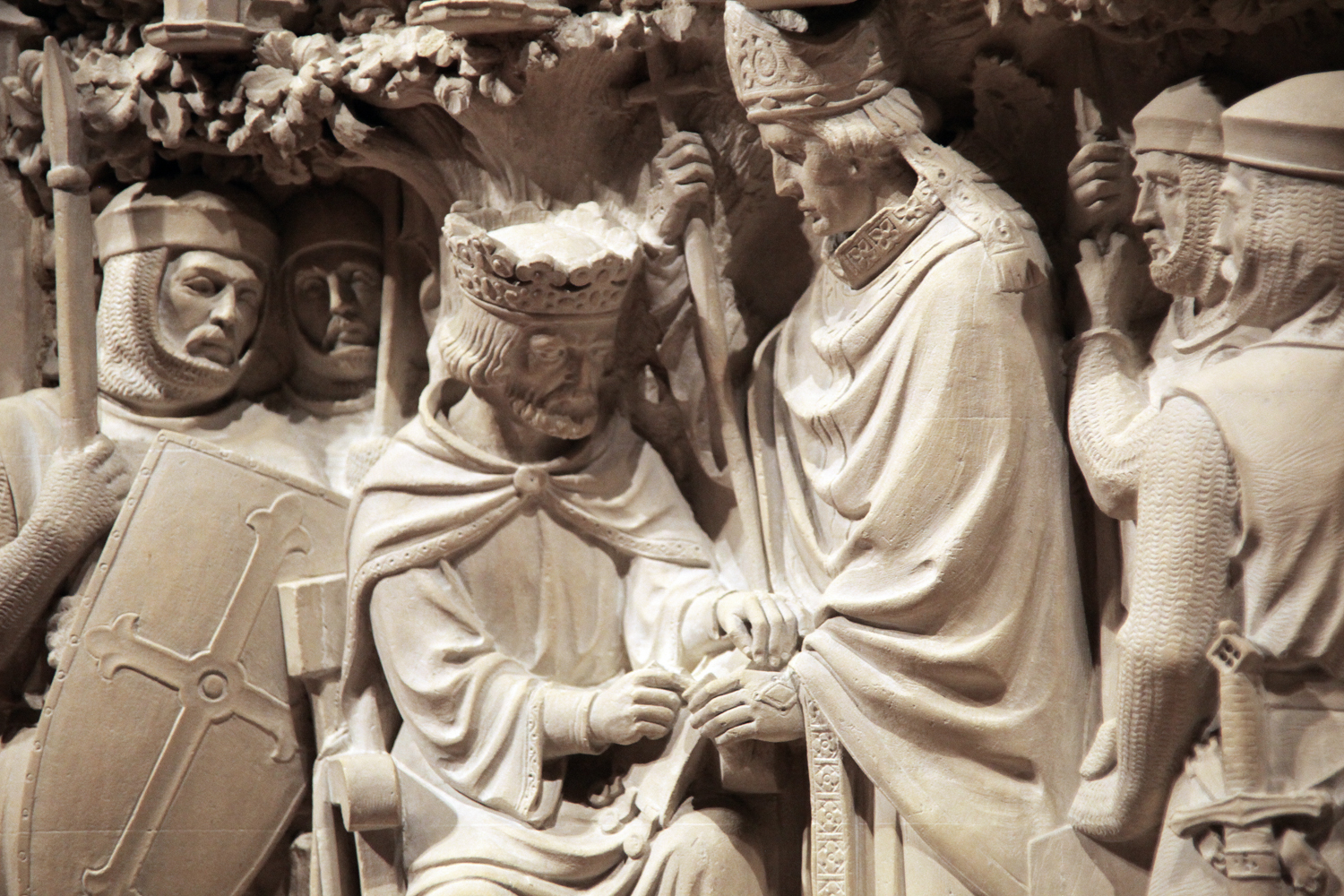 The sculpture on the Canterbury Pulpit relating to Magna Carta